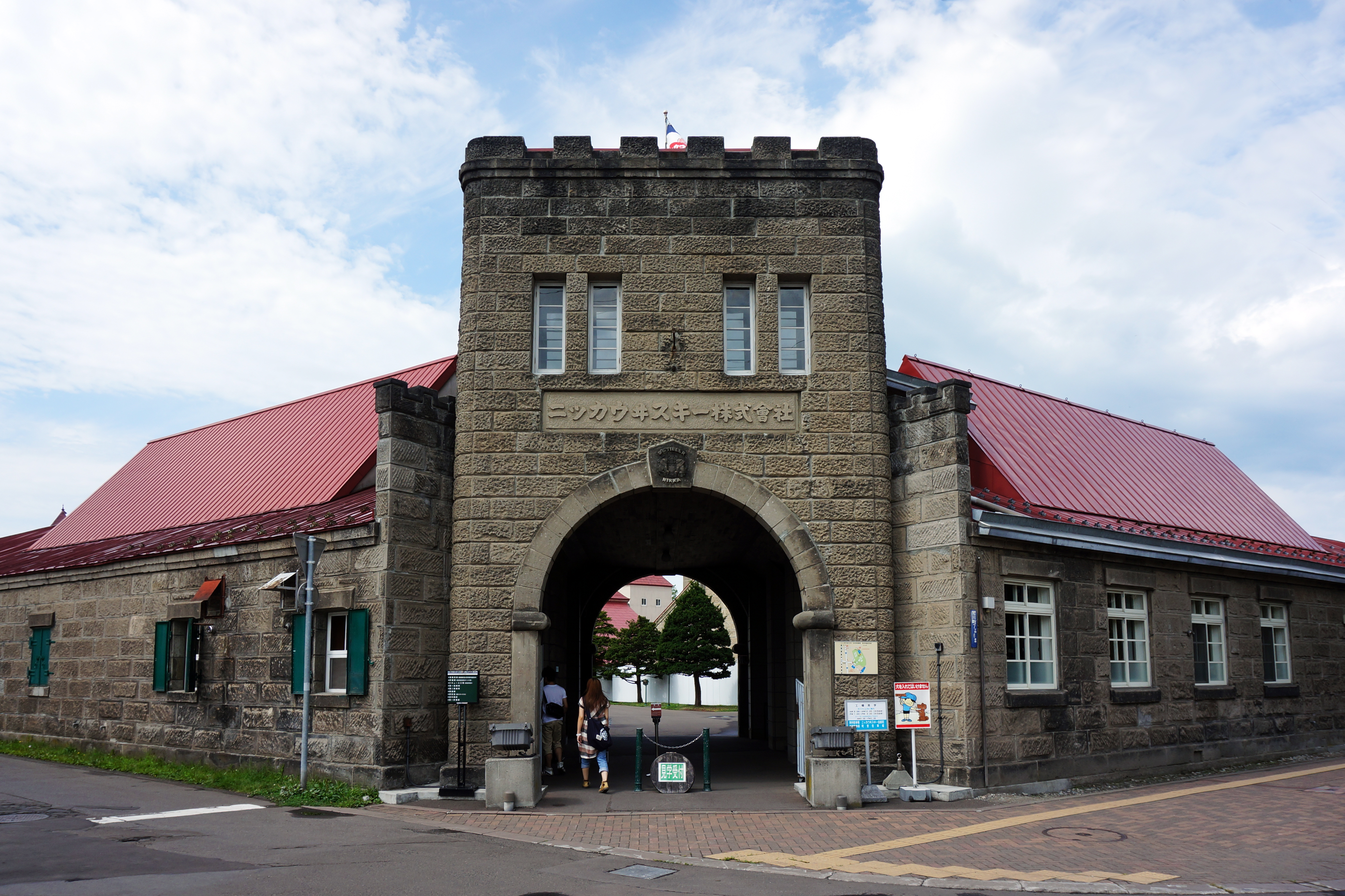 Nikka Wisky Yoichi Distillery in Yoichi, Hokkaido prefecture, Japan.